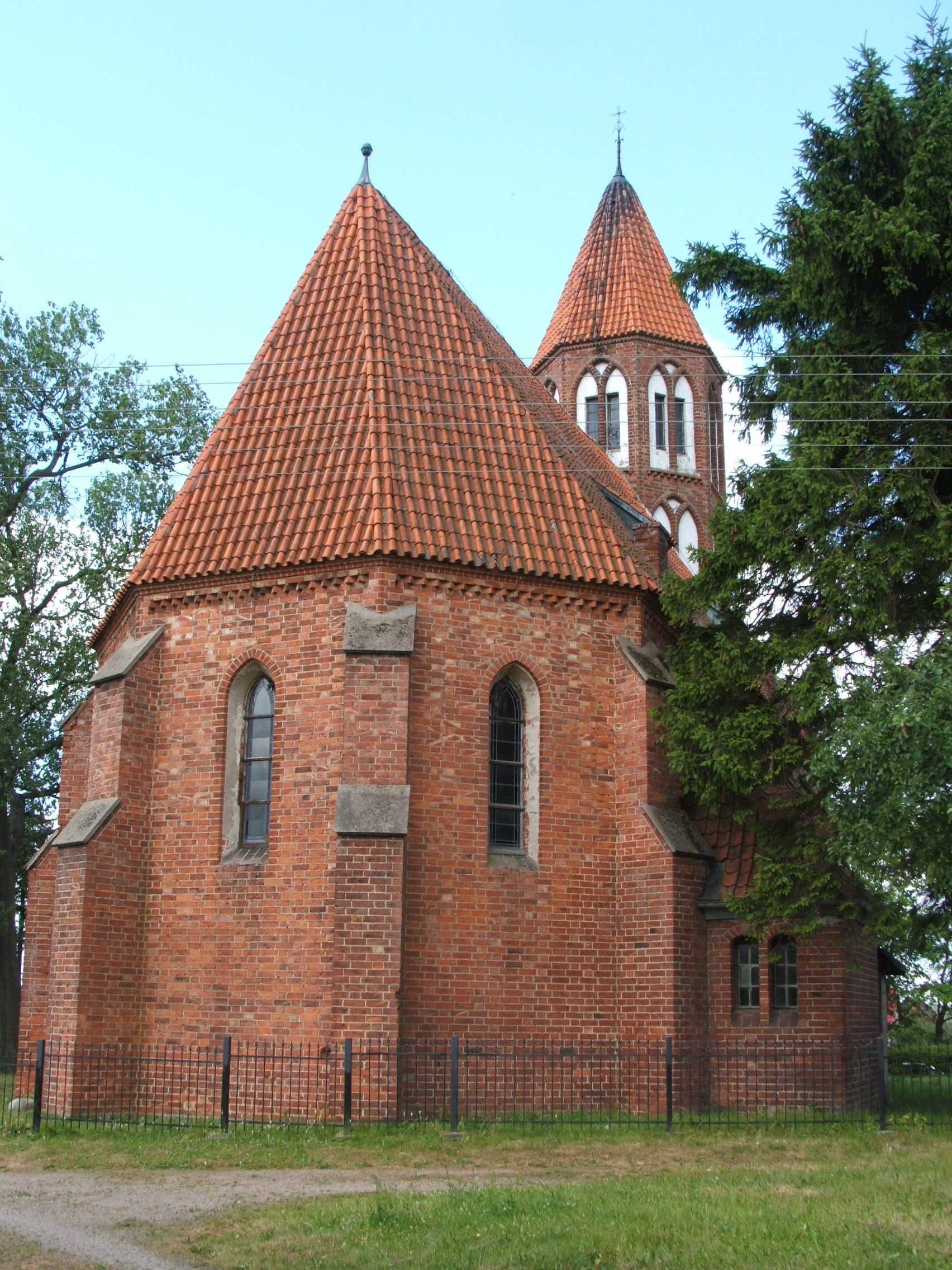 Church in Stężyca